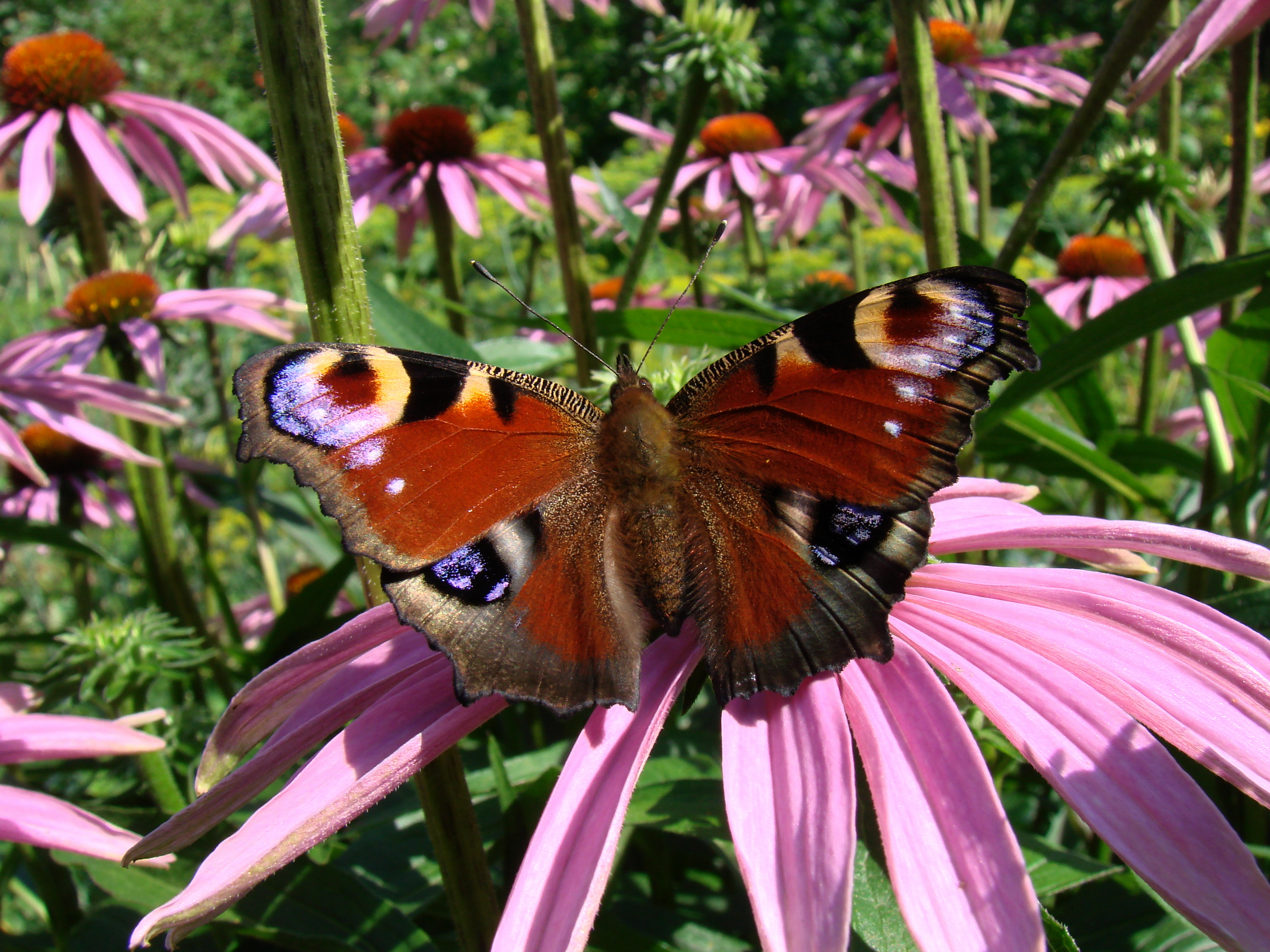 "Echinacea Forest"